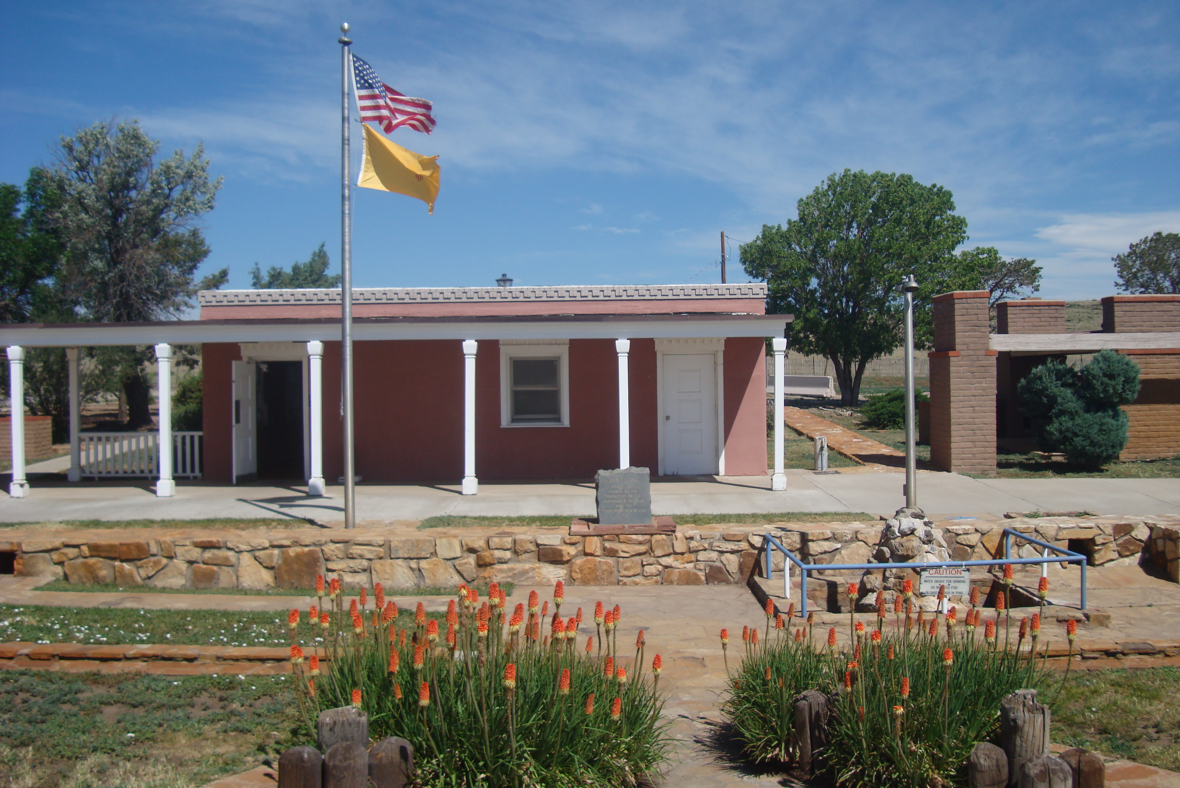 An outpost along the Santa Fe Trail